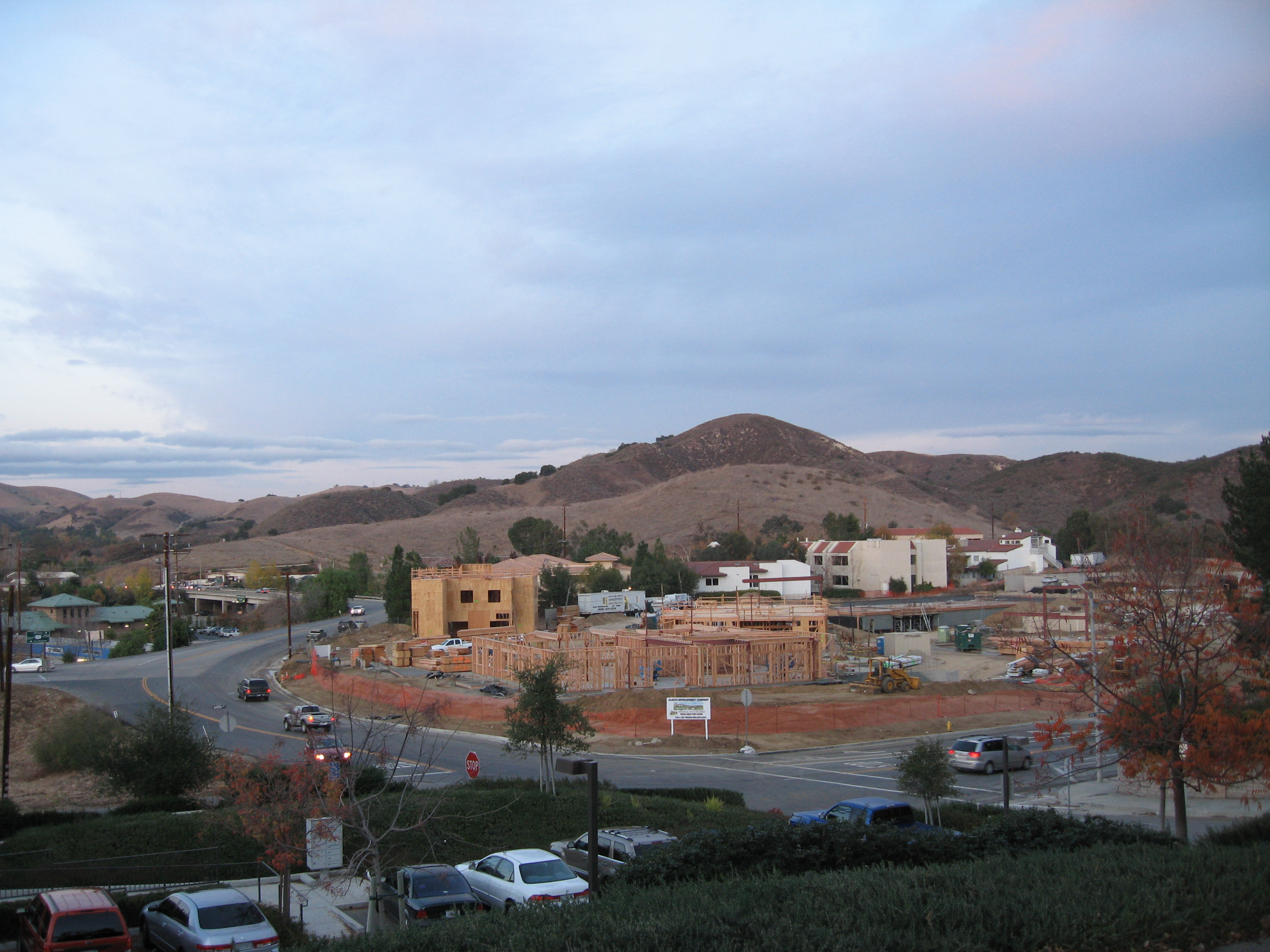 Agoura Hills. New low rise office buildings being constructed in the Historic Quarte